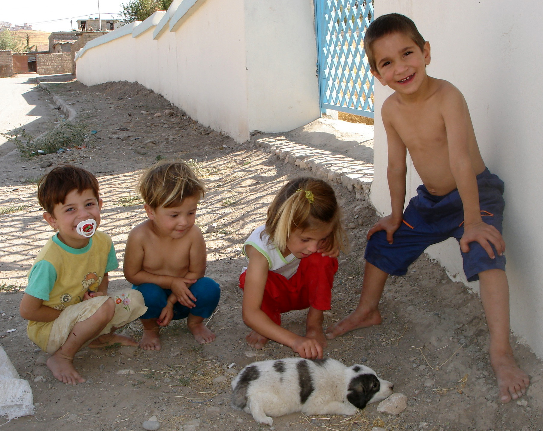 Kurdish Children in Sulaimania